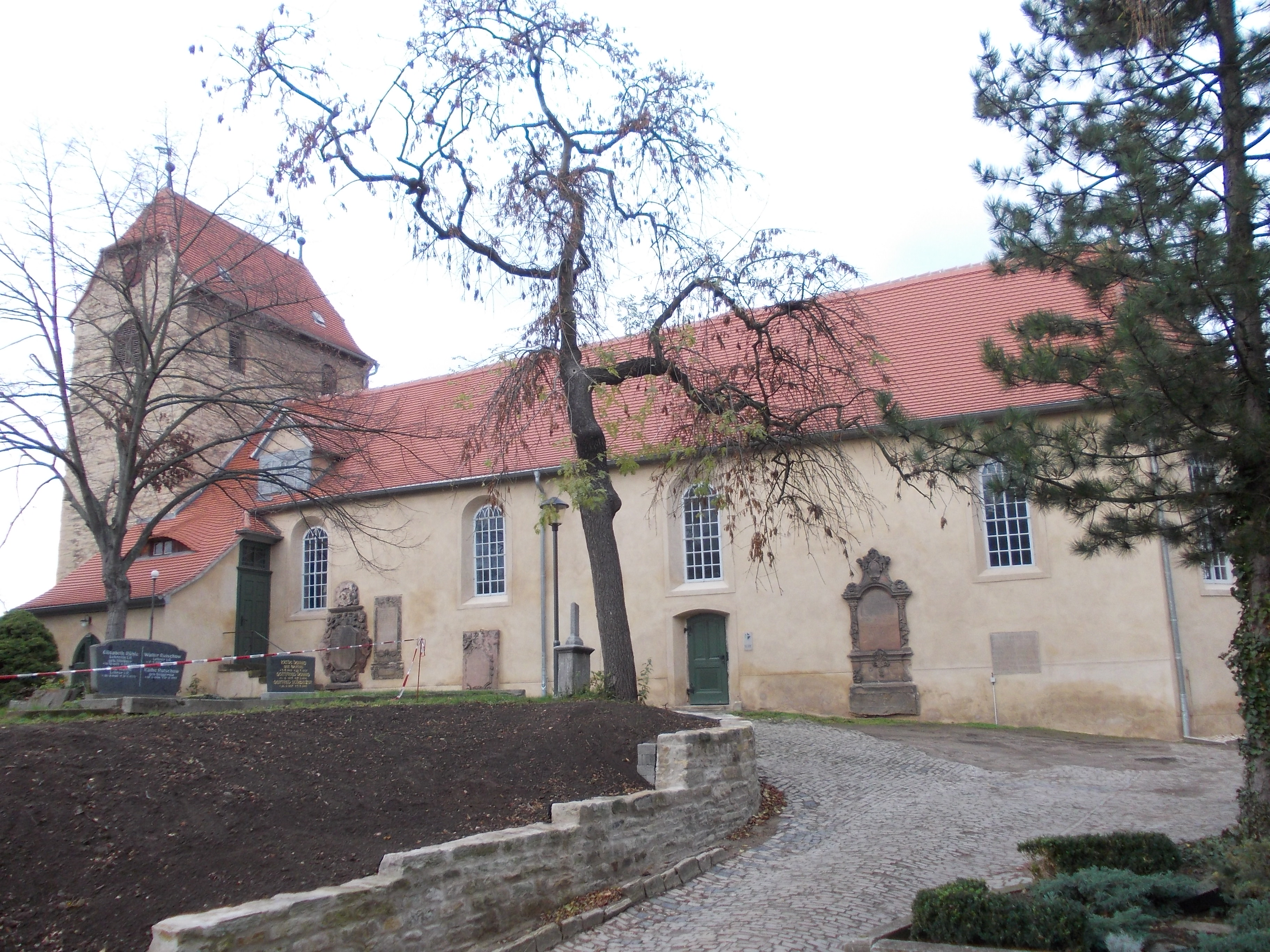 St. Vitus Church in the Altenburg quarter of Merseburg (district: Saalekreis, Saxony-anhalt)